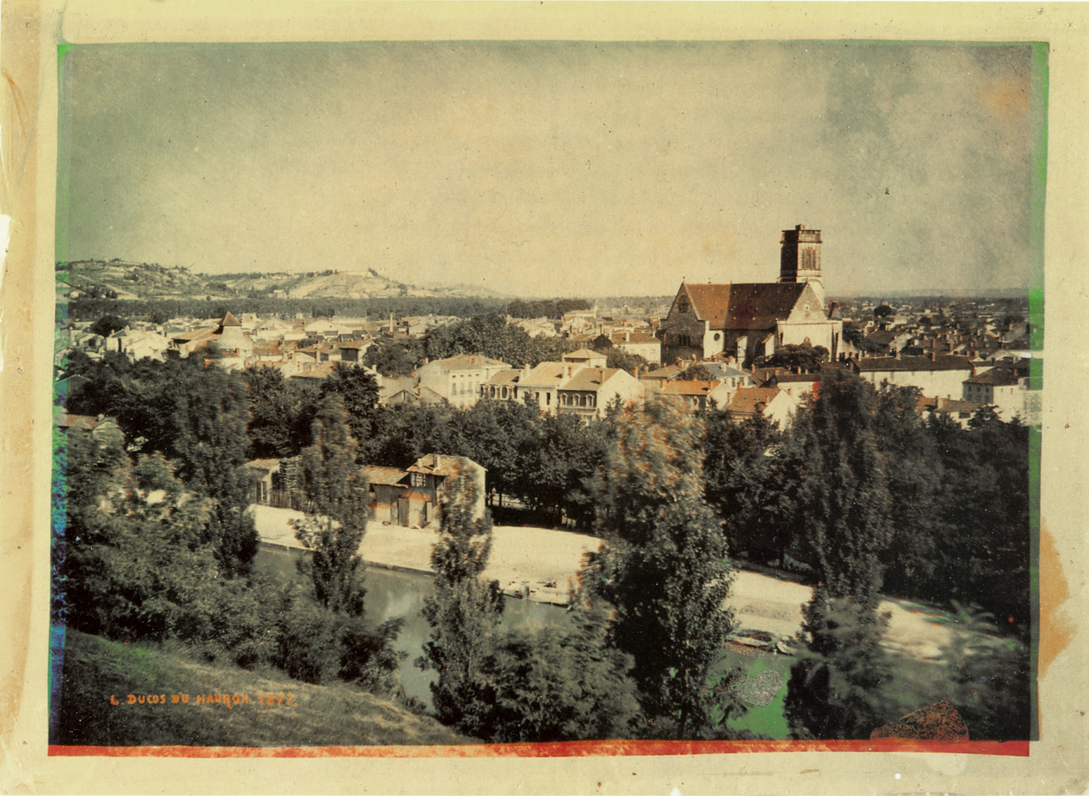 Early color photo of Agen, France, by Louis Ducos du Hauron, 1877. The cathedral in the scene is the Cathédrale Saint-Caprais d'Agen. [1]